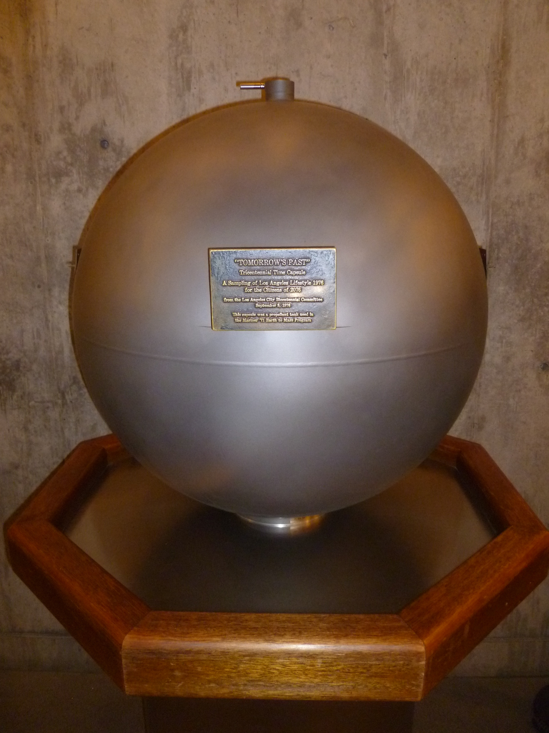 Time capsule at Griffith observatory